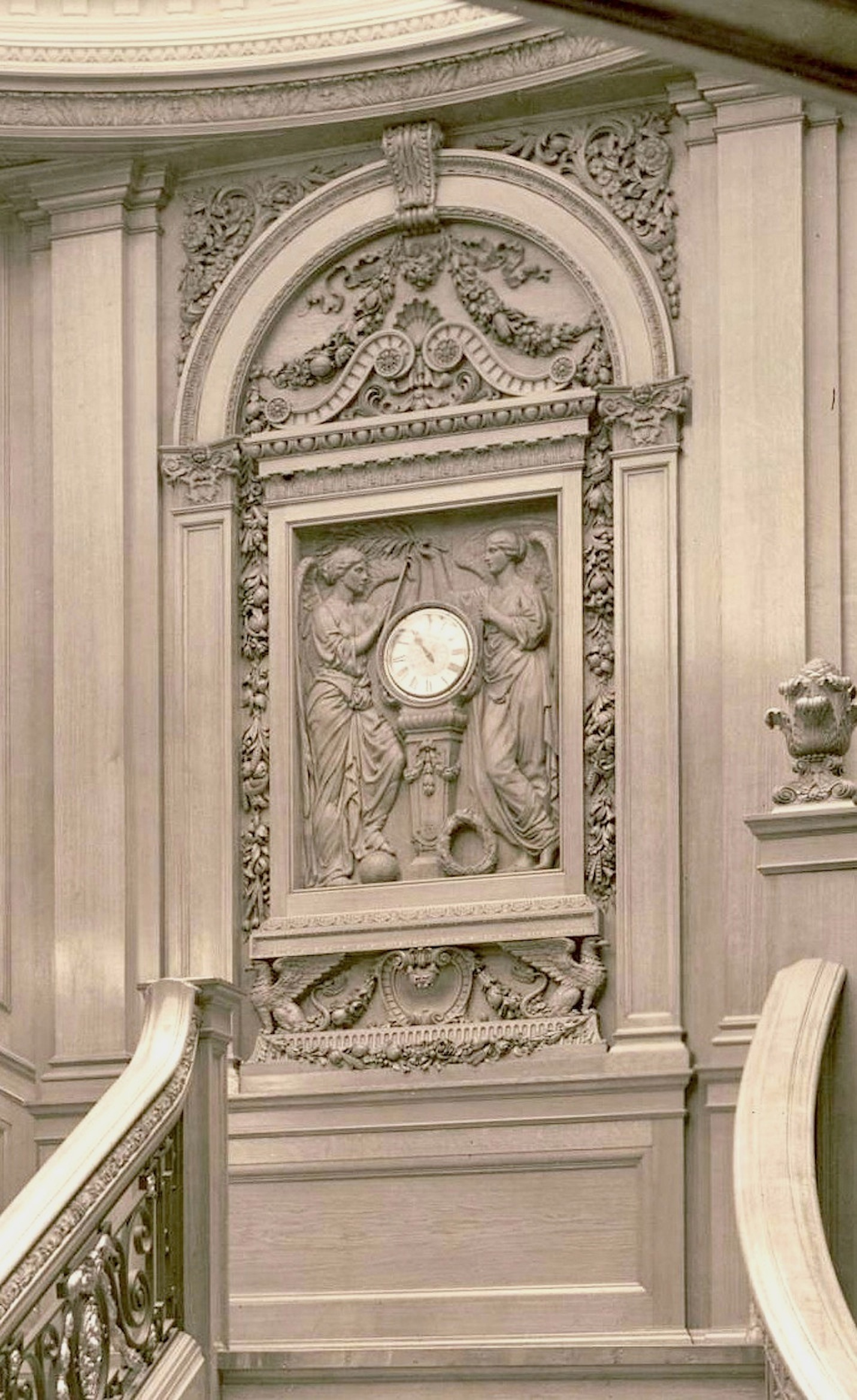 Cropped image showing the allegorical clock "Honour and Glory croning Time" at the Grand Staircase of the Olympic.